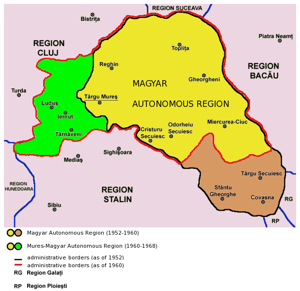 Map of the Magyar Autonomous Region (1952-1960) and Mureş-Magyar Autonomous Region (1960-1968).